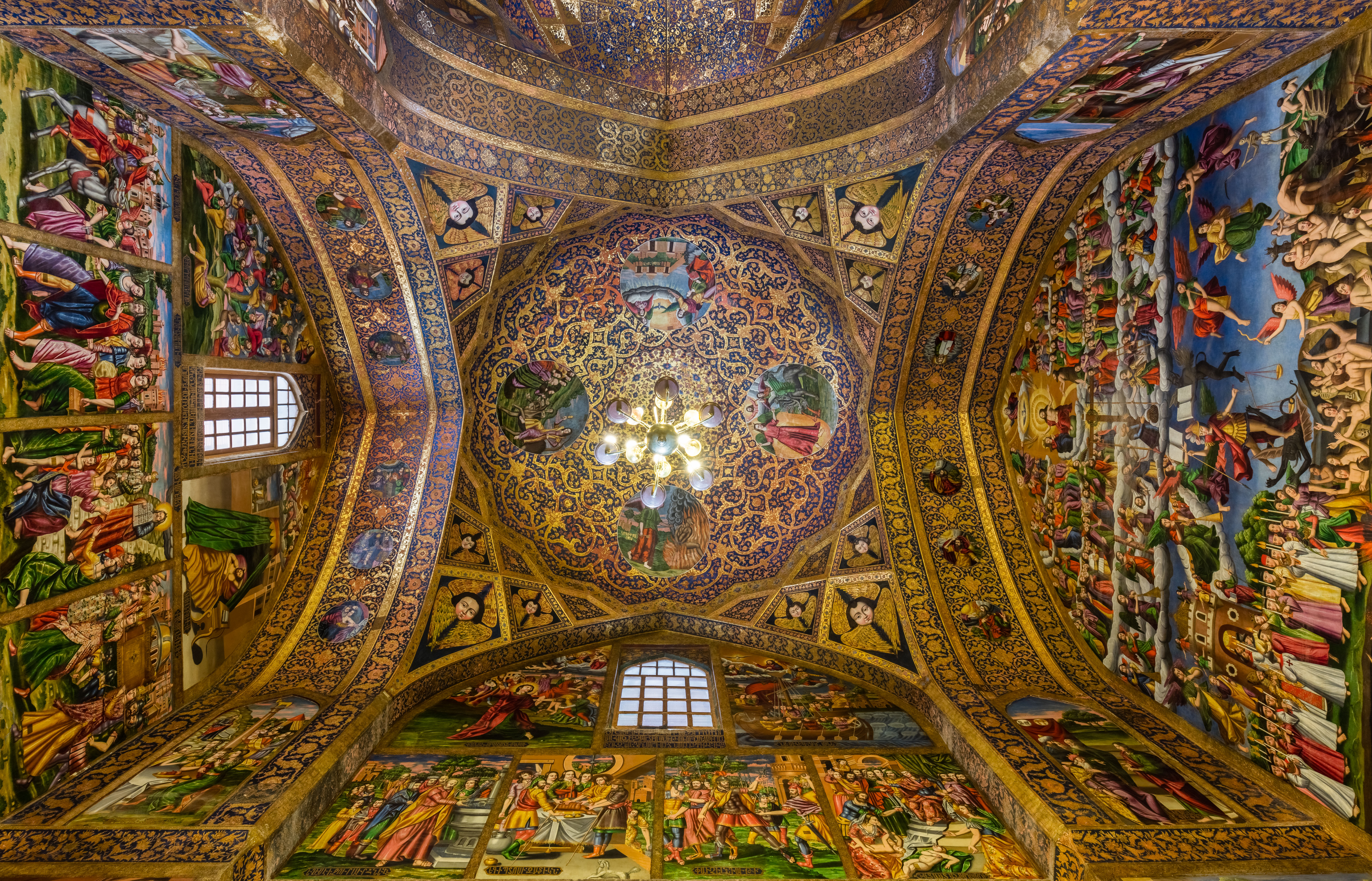 View of the rich ceiling of the Vank Cathedral in Isfahan, possibly the most impressive christian temple in the Islamic Republic of Iran. The construction of the Armenian Apostolic church, formaly known as Holy Savior Cathedral, began in 1606 and was finished between 1655 and 1664. The temple was dedicated to the hundreds of thousands of Armenian deportees that were resettled by Shah Abbas I during the Ottoman War of 1603-1618.